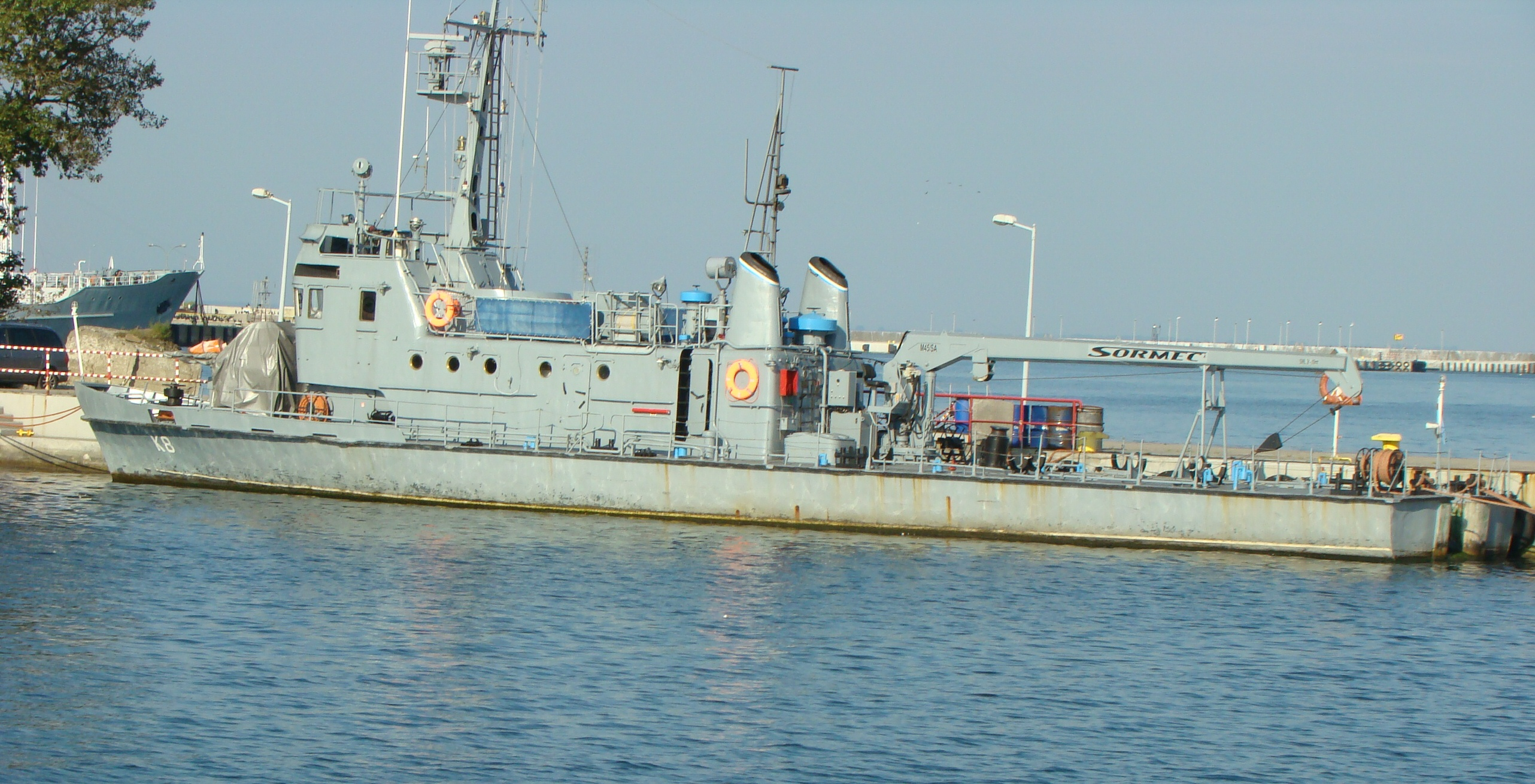 K-8 torpedo recovery vessel of Polish Navy, Kormoran class.